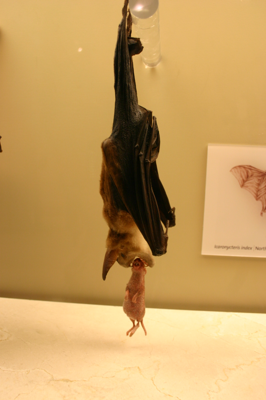 Vamyrum spectrum, according to the author's gallery on flickr this is from the Smithonian National Museum of Natural History: Hall of Mammals Visit my blog at